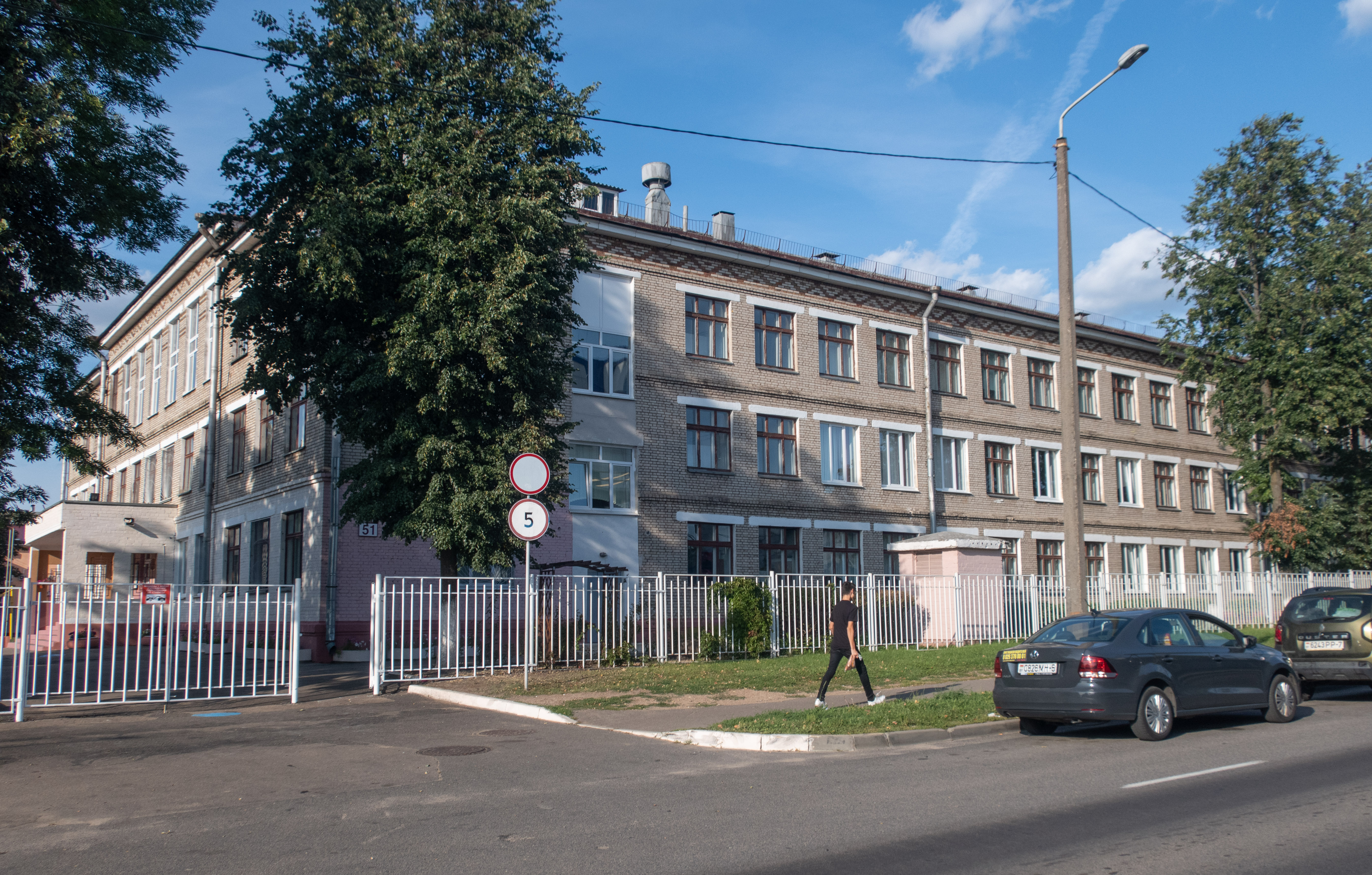 51 Narodnaja street. Special school No 18 for children with severe speech impairments. Minsk, Belarus